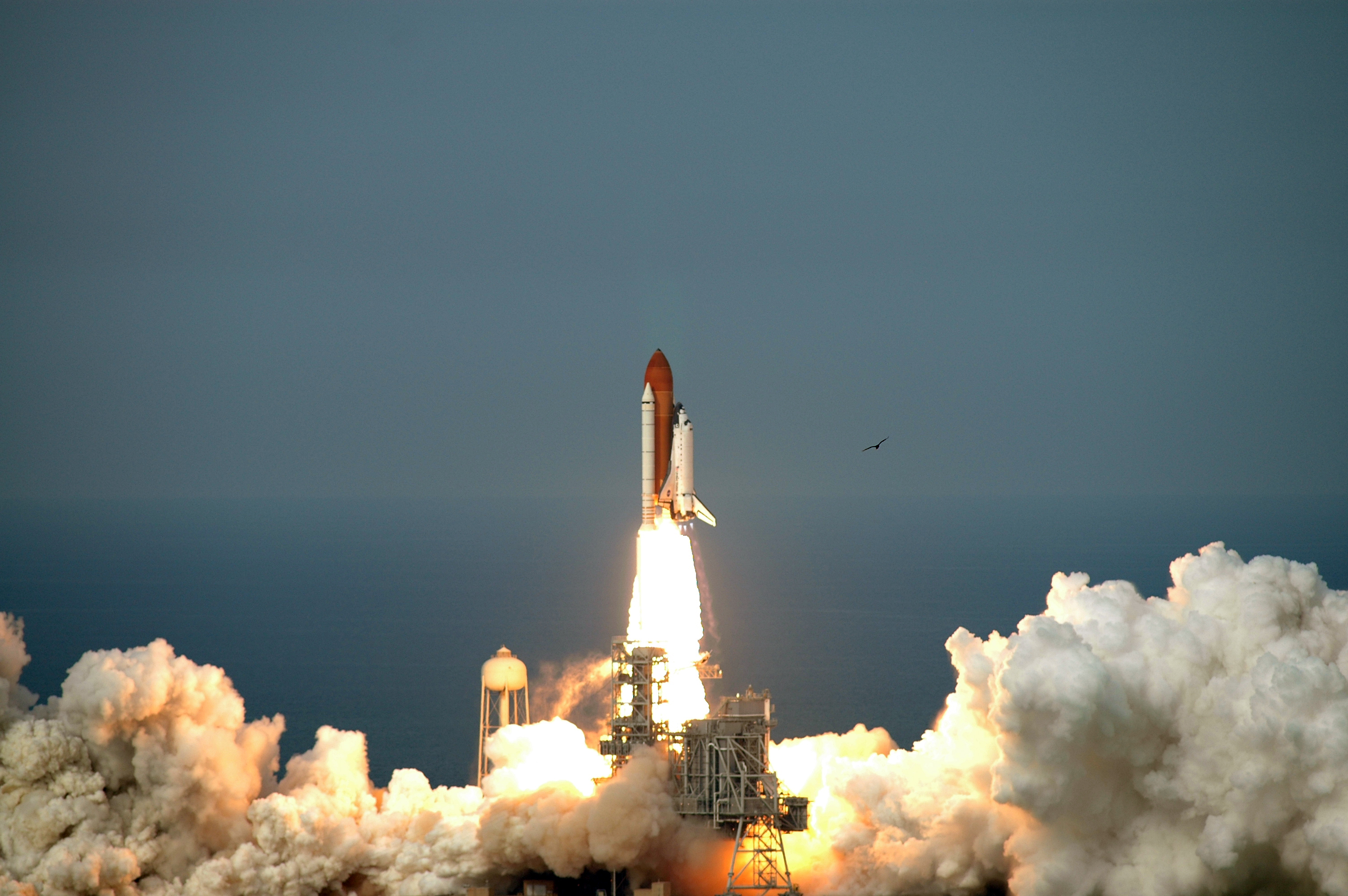 Liftoff of space shuttle Endeavour from Launch Pad 39A at NASA's Kennedy Space Center in Florida.